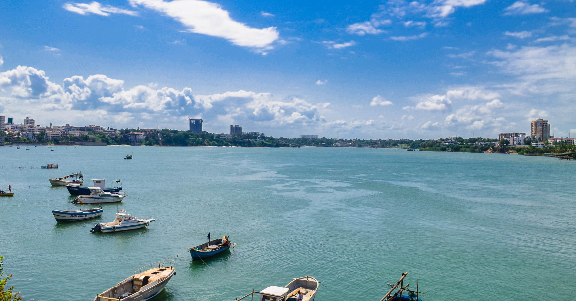 Mombasa has a centuries-old history as a harbour city. The Kilindini harbour was inaugurated in 1896 when work started on the construction of the Uganda Railway. During World War II, while Kenya was a British colony, Kilindini became the temporary base of the British Eastern Fleet from early 1942 until the Japanese naval threat to Colombo, Ceylon (now Sri Lanka) had been removed. Nearby, the Far East Combined Bureau, an outstation of the British code-breaking operation at Bletchley Park, was housed in a requisitioned school (Allidina Visram High School, Mombasa) and had success in breaking Japanese naval codes This is an image with the theme "Africa on the Move or Transport" from: Kenya